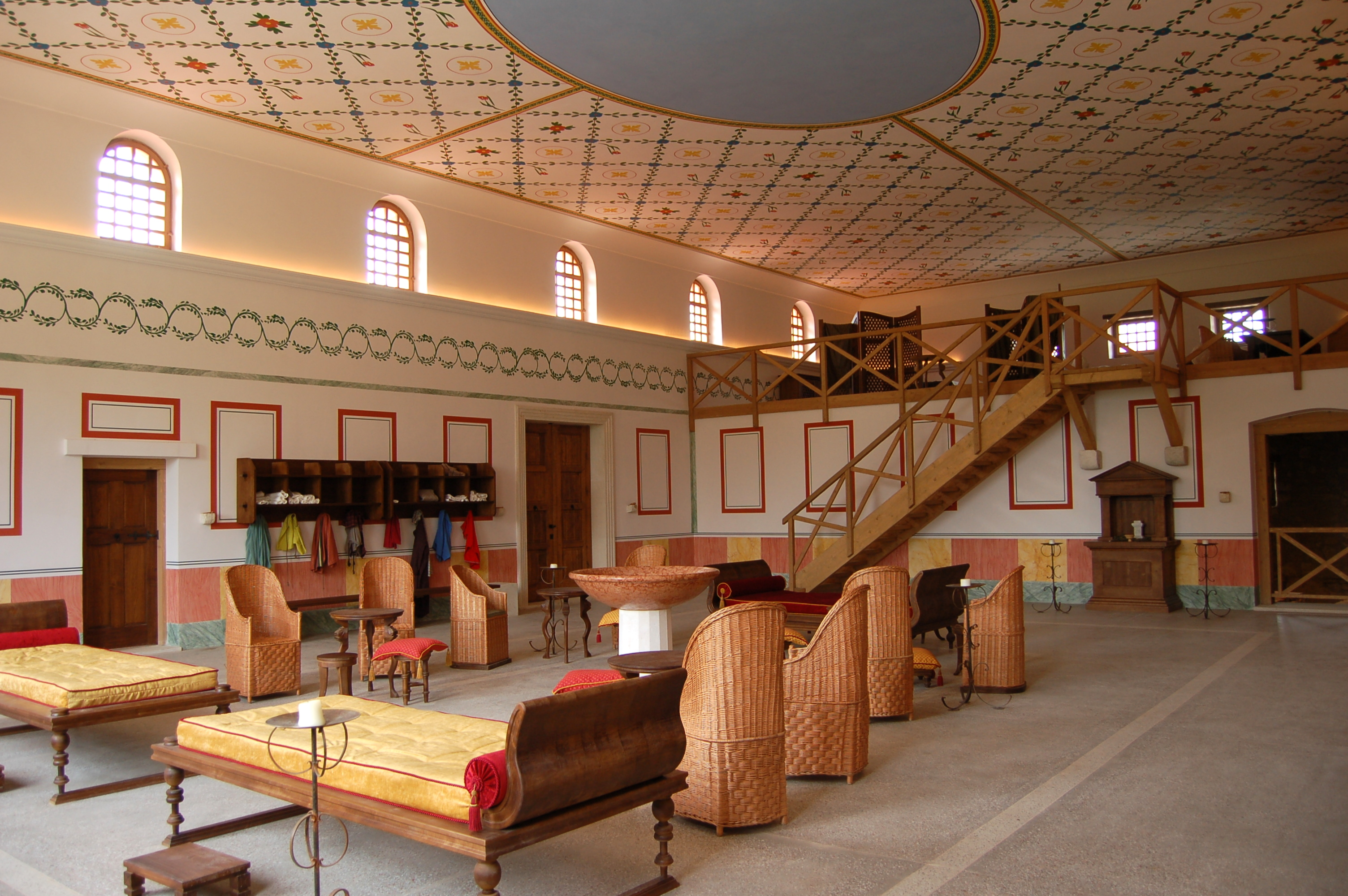 Apodyterion (undressing and dressing room) of the reconstructed Carnuntum thermae, Petronell-Carnuntum municipality, Lower Austria